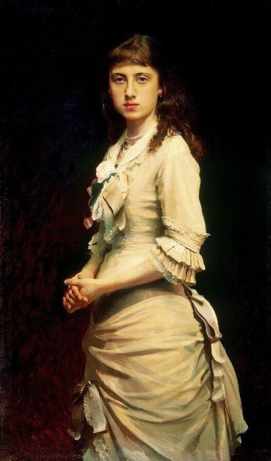 Portrait of Sophia Ivanovna Kramskoy, daughter of the artist - Ivan Kramskoy, 1882